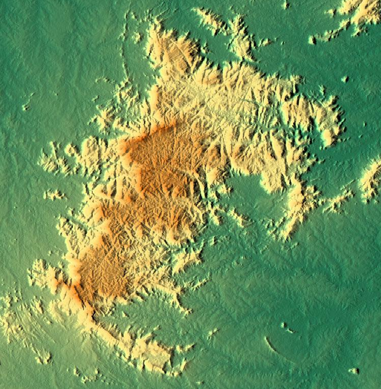 A topographic map of Baturité Massif, in Ceará state, Brazil.